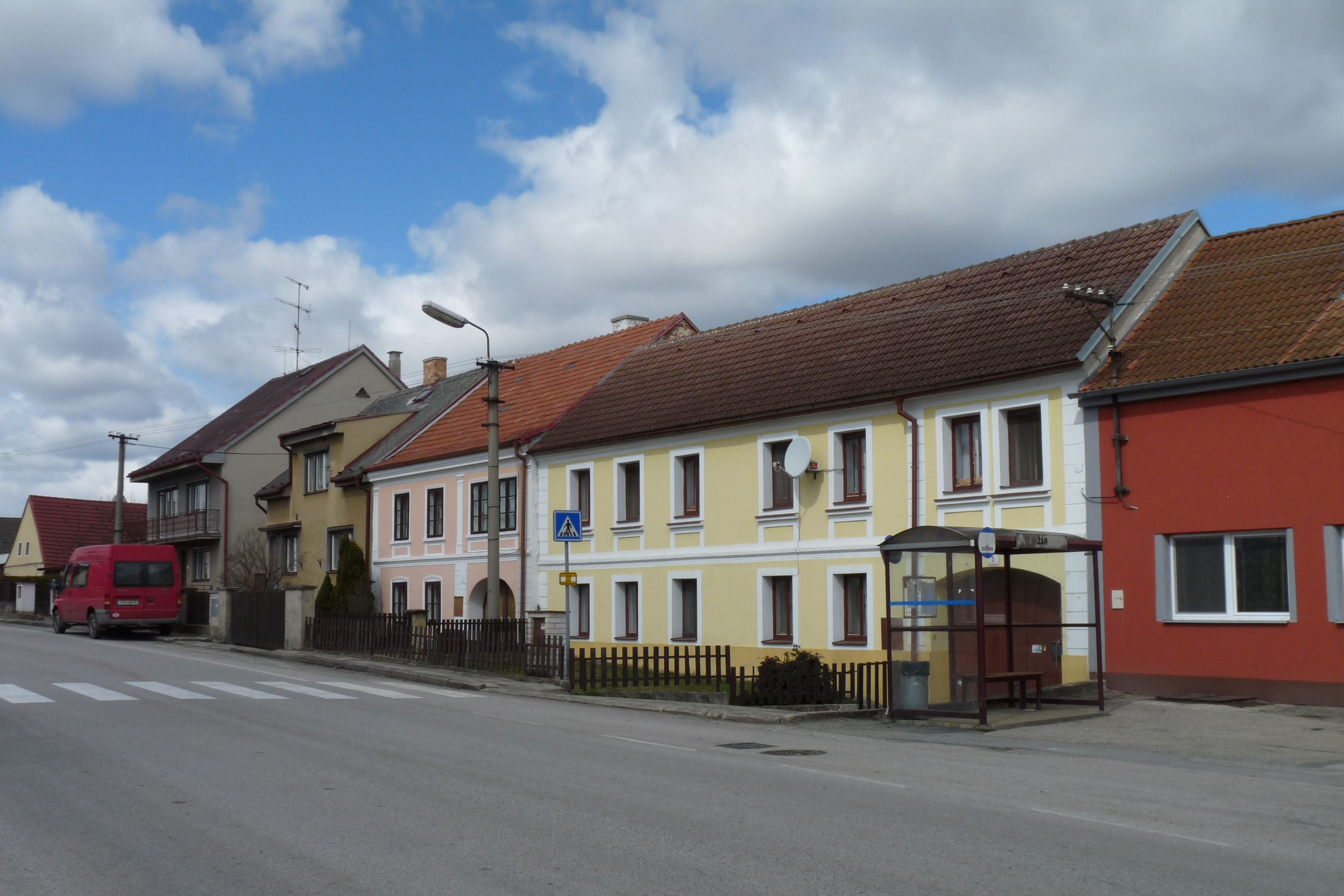 House No 5 in the village of Žár, České Budějovice District, South Bohemian Region, Czech Republic.